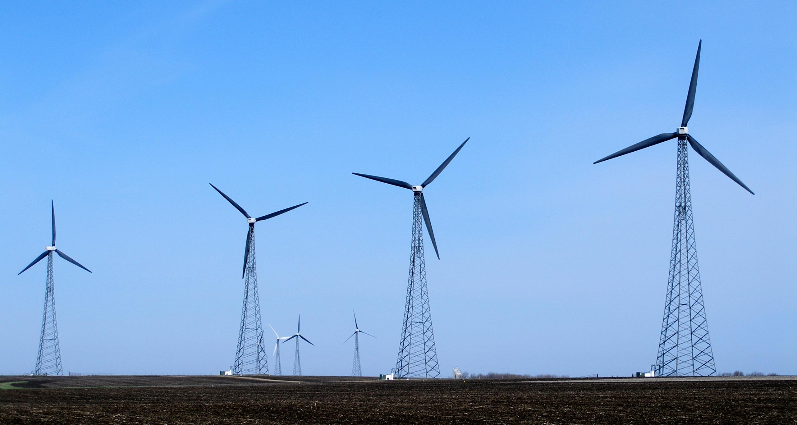 A portion of the World's largest windfarm. 259 wind turbines over 200 feet tall located in Cherokee and Buena Vista Counties in Northwestern Iowa. Together they produce 192,750 kW of energy.